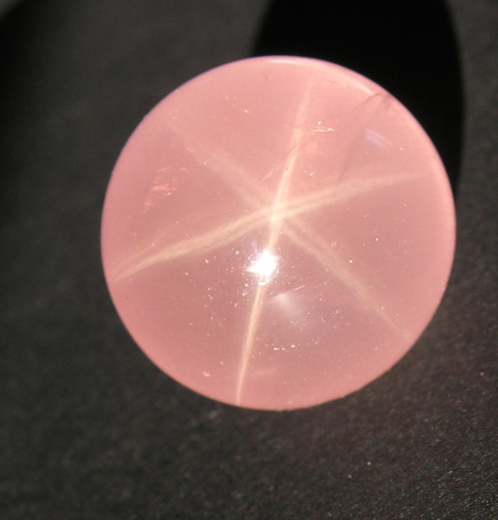 Starry rose quartz, cut into a ball. Origin: Madagascar.